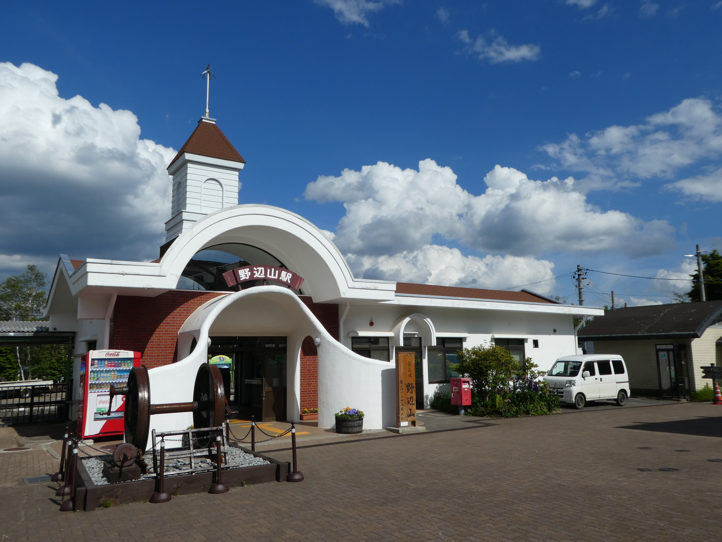 Nobeyama Station on the Koumi Line